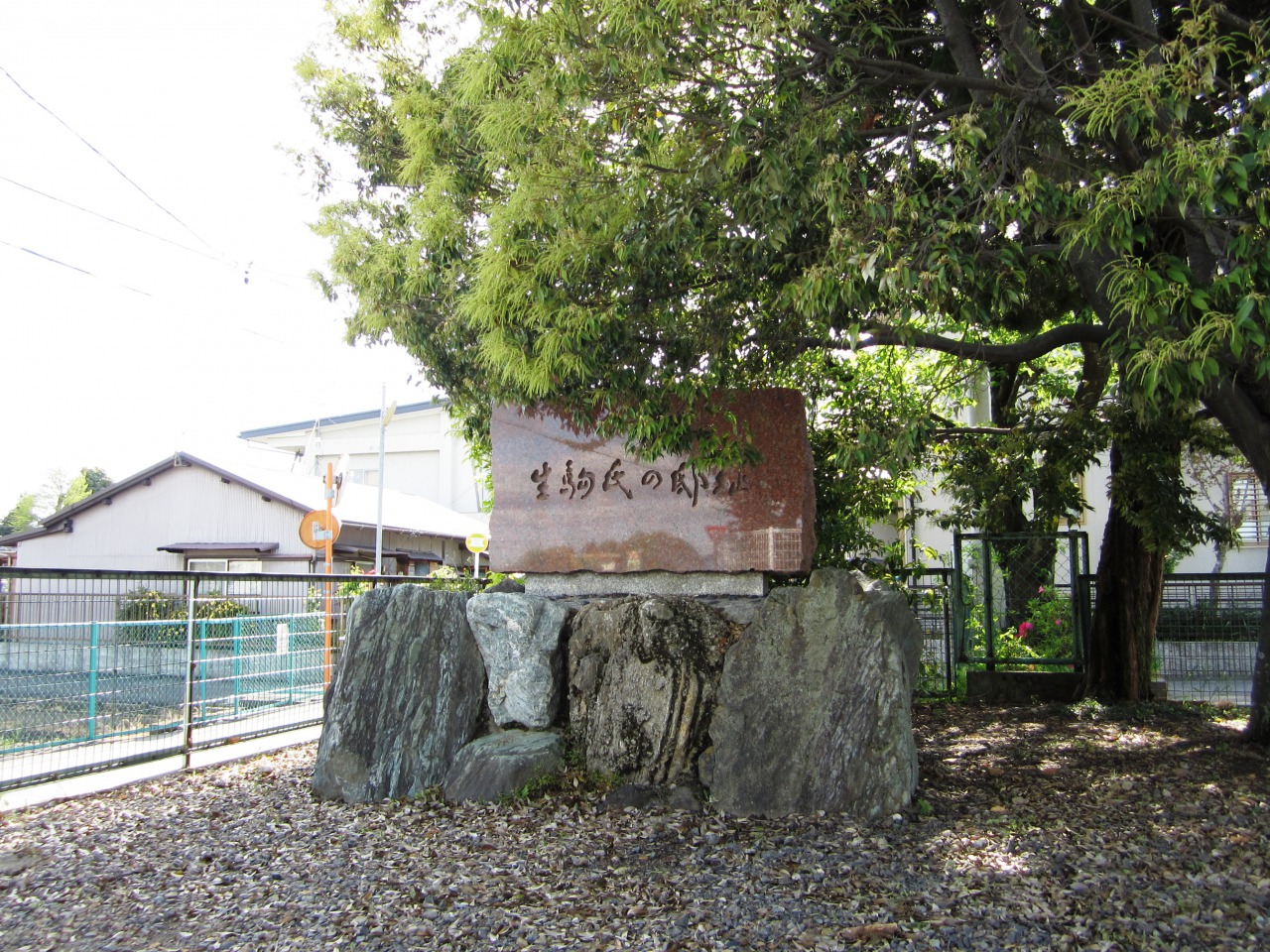 The Site of Ikoma clan's residence in Kōnan, Aichi.